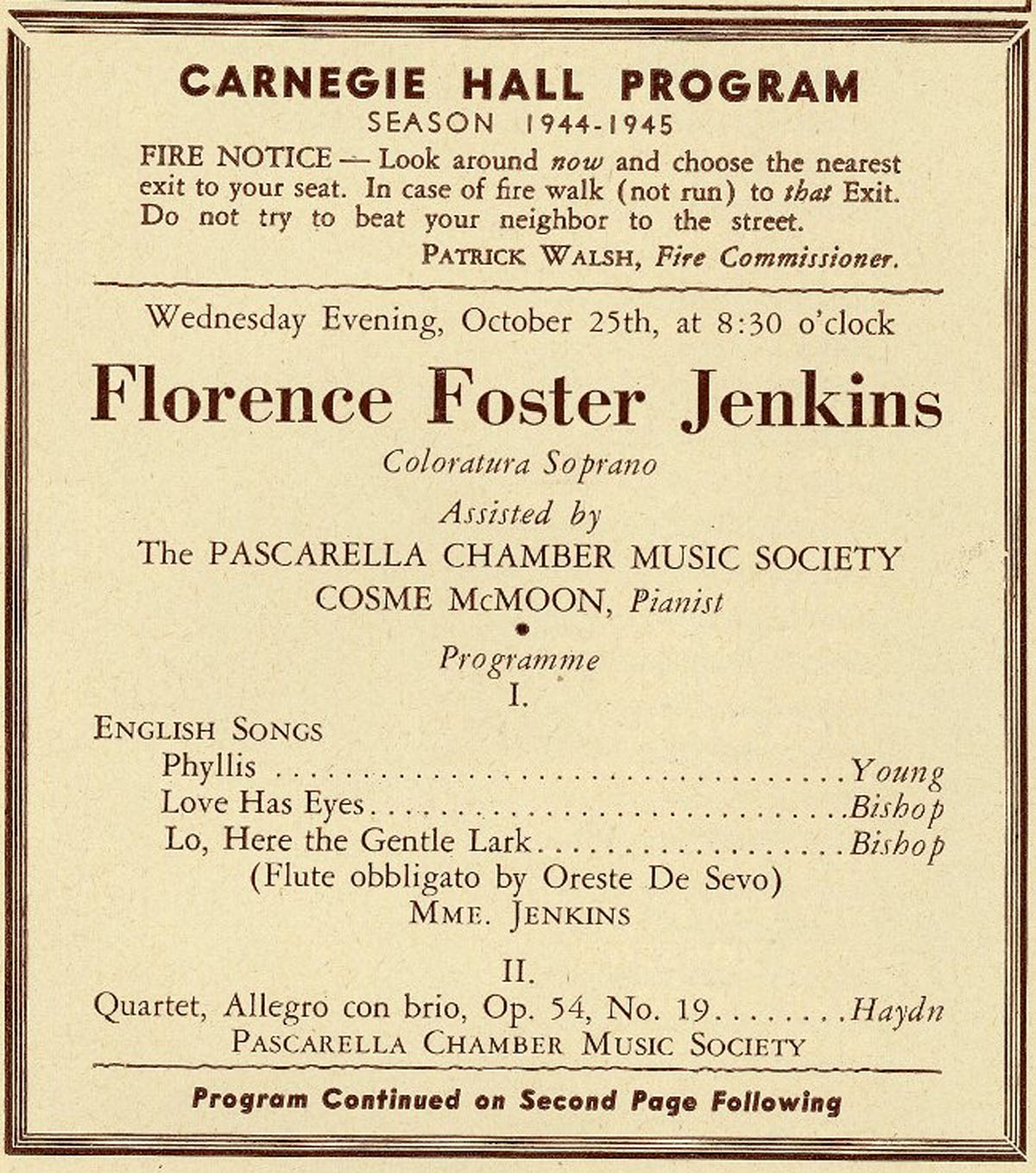 Florence Foster Jenkins program